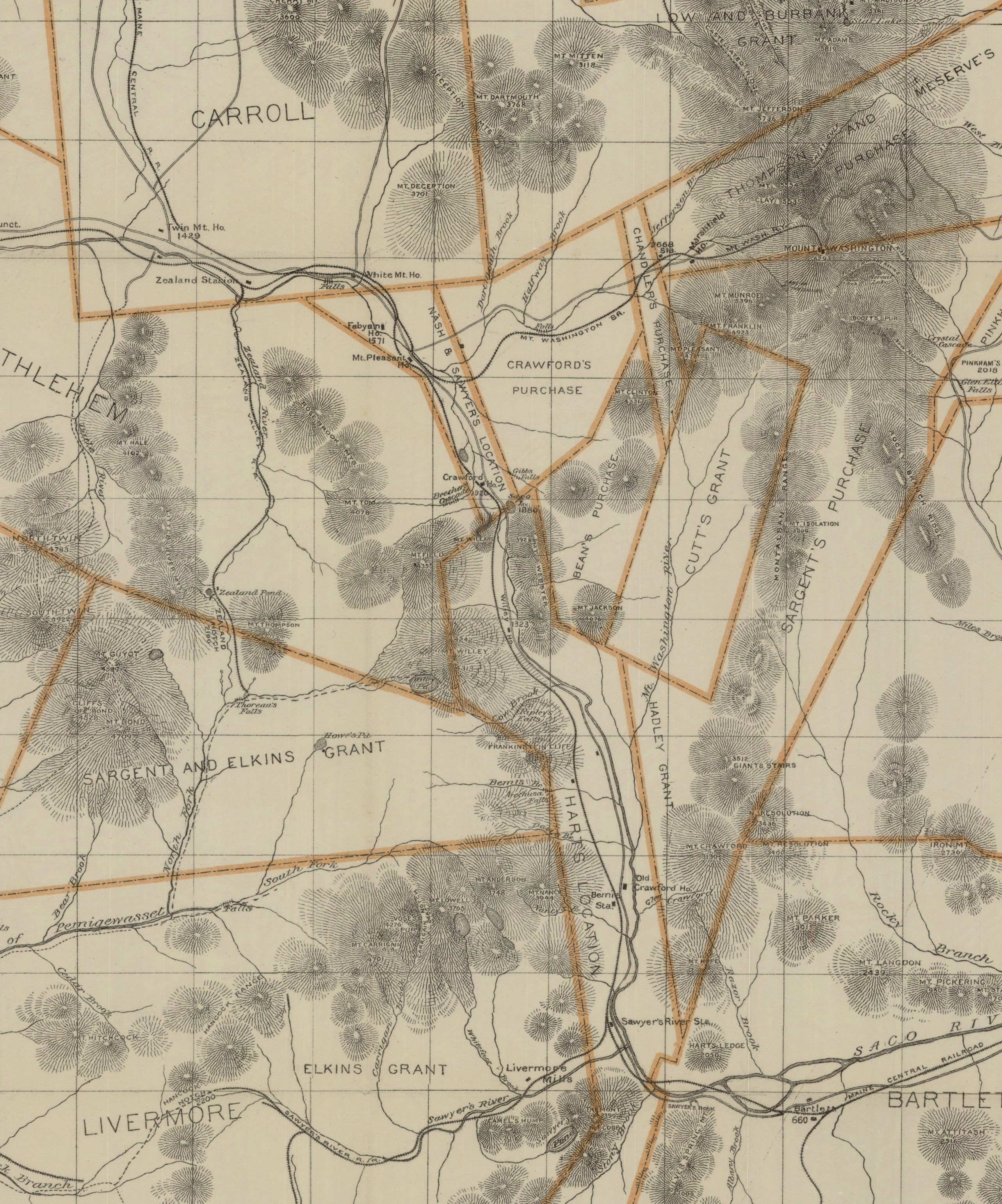 Section of Crawford's map of the White Mountains of New Hampshire from original surveys by Geo. T. Crawford. Section is zoomed from the original and concentrates on the areas of Hart's Location and Nash & Sawyers Location